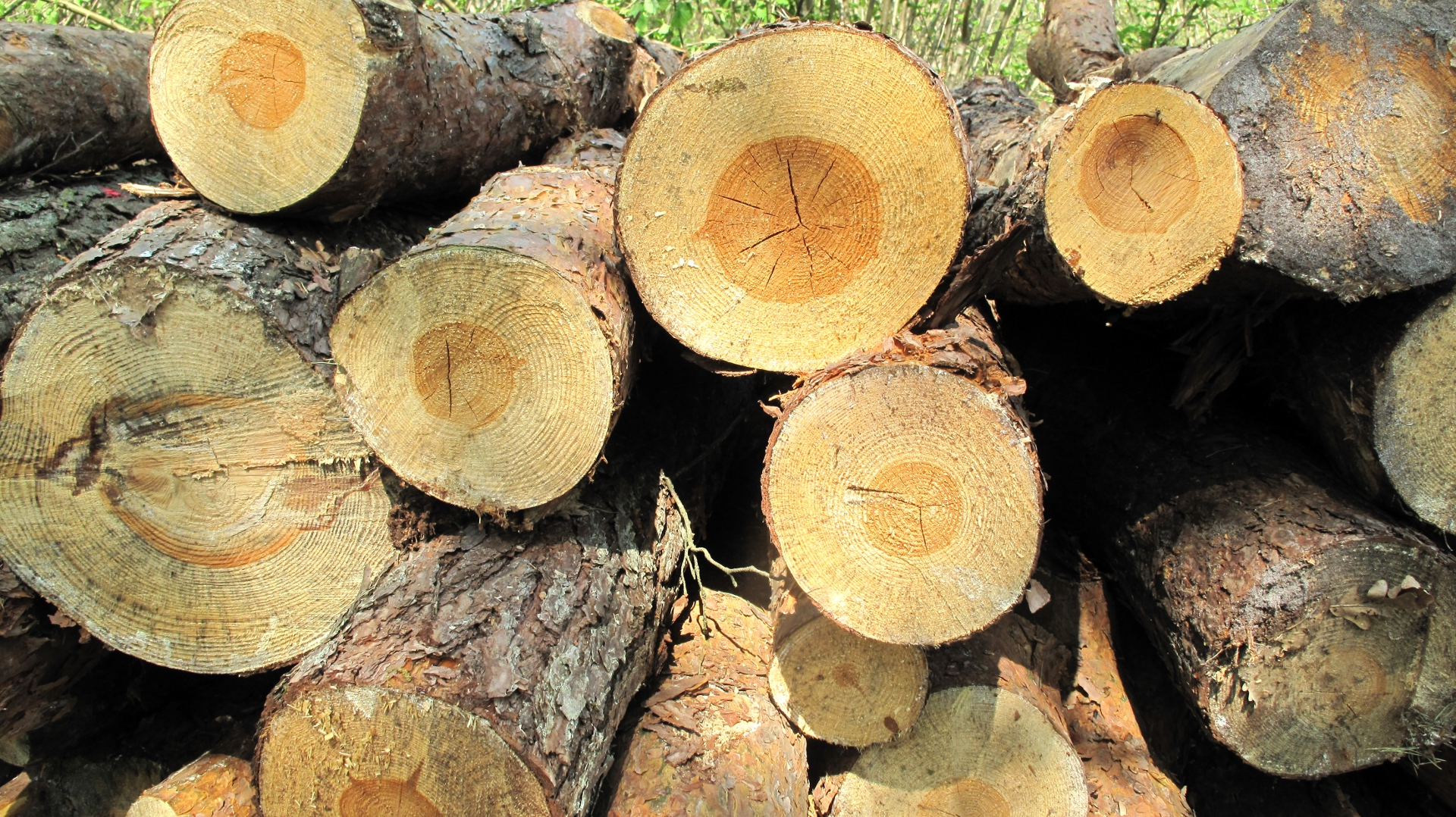 Cutting wood in the forest near Larchant - Ile-de-France